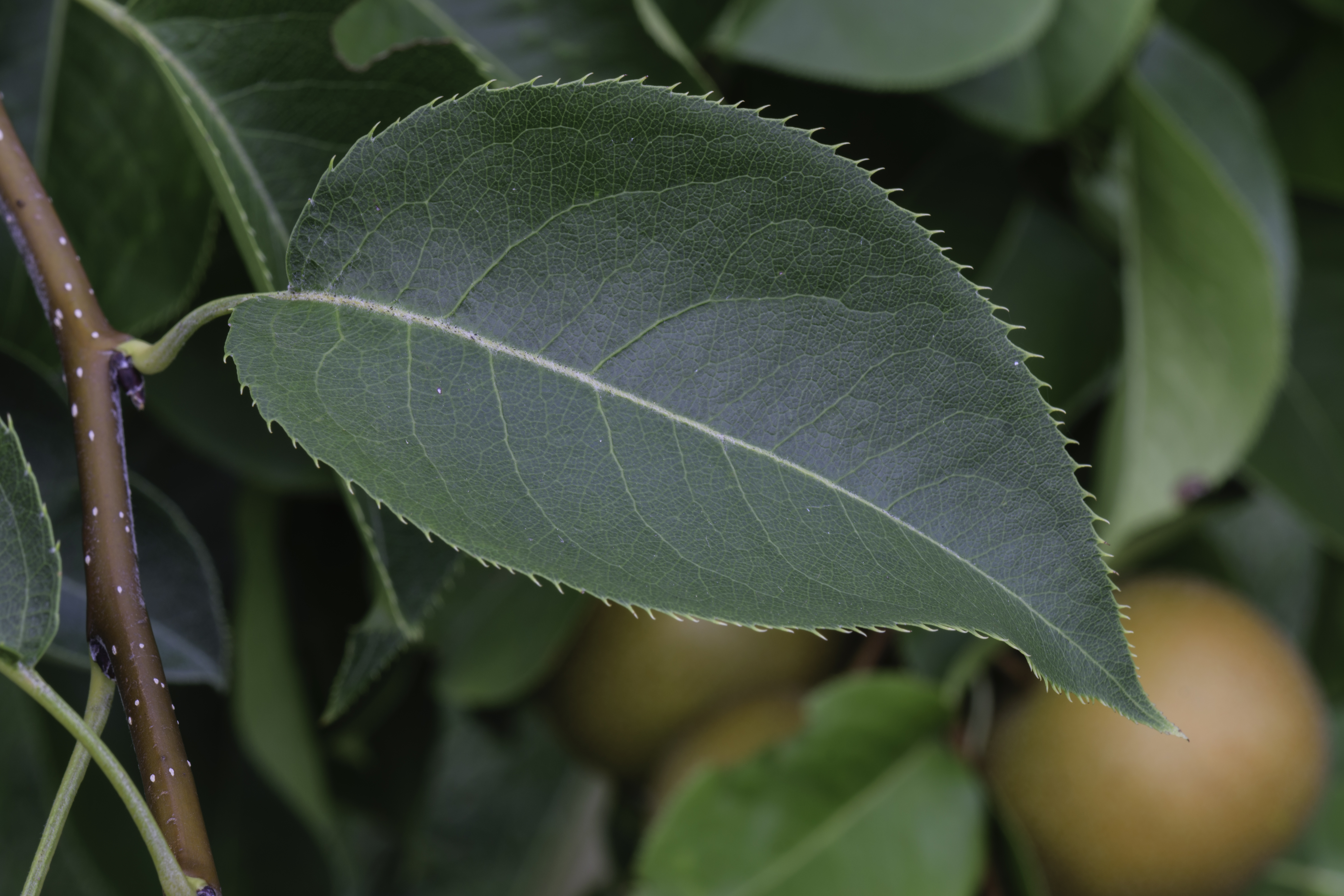 Pyrus pyrifolia "Shinko" cultivar leaf, Virginia Beach, Virginia. Two fruits are visible. All my photos starting with the name "Pyrus pyrifolia (Raja) ..." are of the same tree, regardless of date taken.